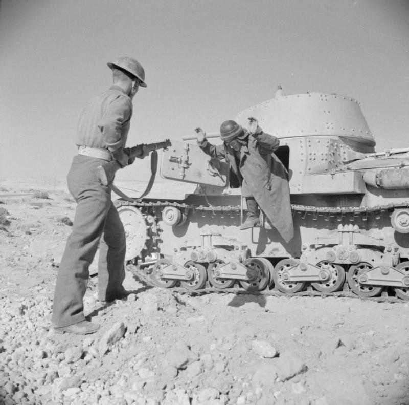 The British Army in North Africa 1941 A member of the crew of an Italian M13/40 tank giving himself up near Gazala. His captor might be a soldier of the Polish Independent Carpathian Rifles Brigade.